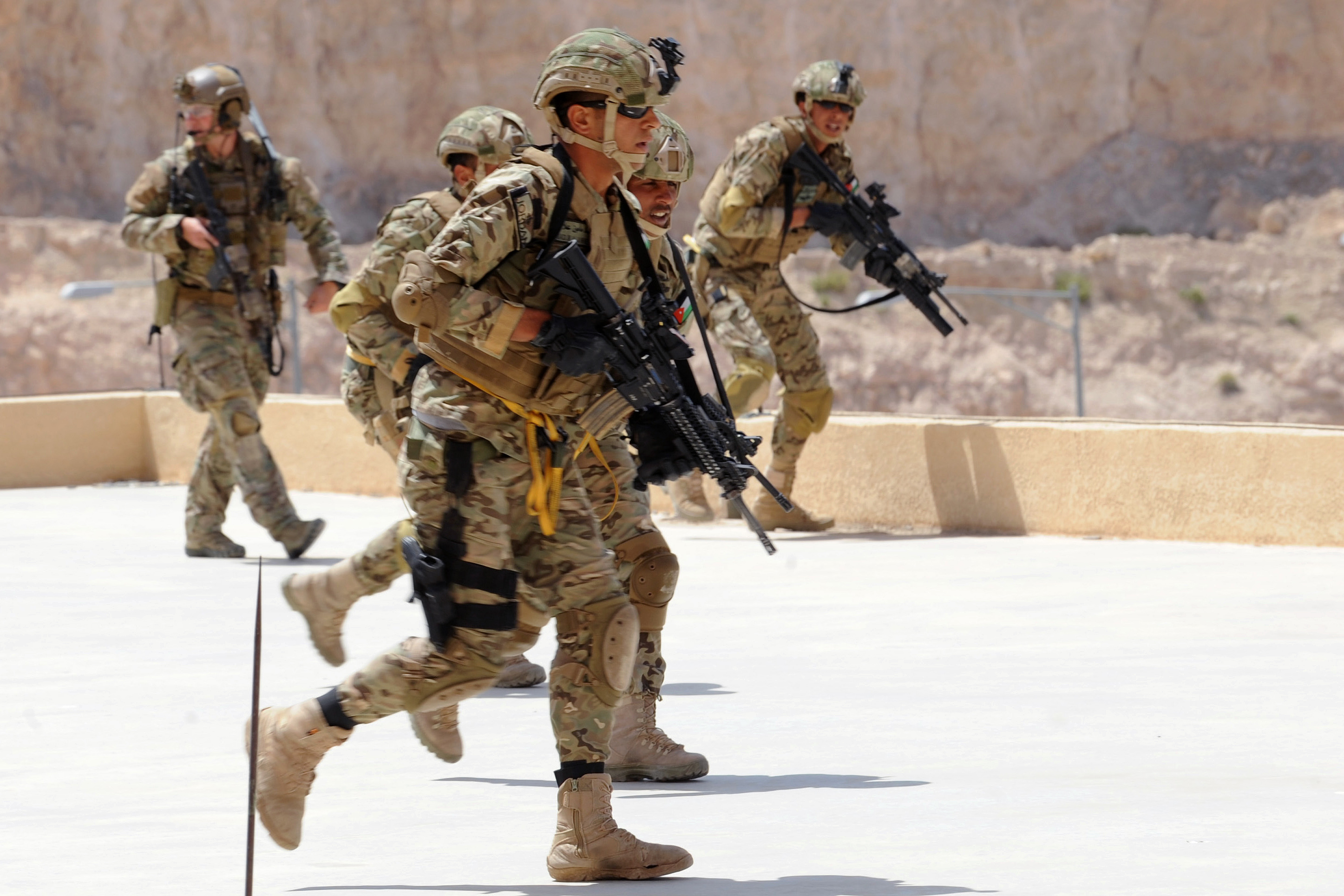 Jordanian Special Forces troops and U.S. airmen advance to their next objective after fast-roping onto the roof of a building, during an interoperability combat search-and-rescue training exercise at the King Abdullah II Special Operations Training Center as part of Eager Lion 2017 in Amman, Jordan